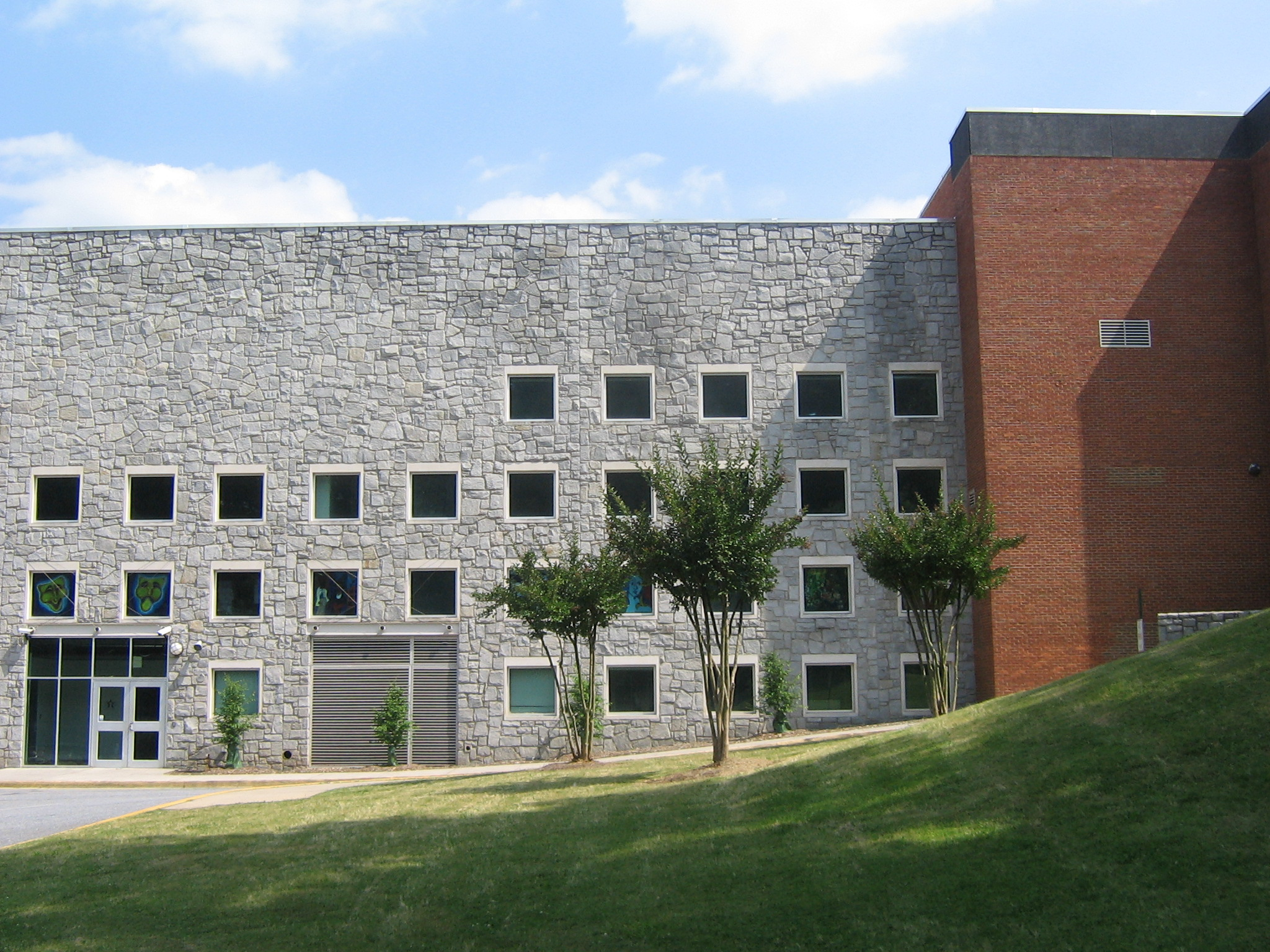 (Old) North Atlanta High School, looking south